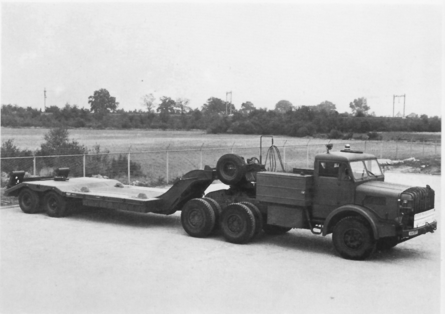 Thornycroft Mighty Antar truck & Daf trailer in use by Dutch Army